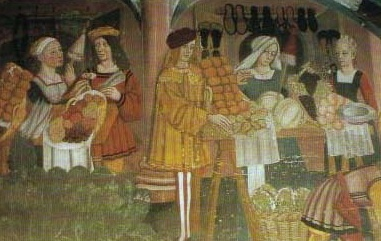 Paintings from Issogne castle